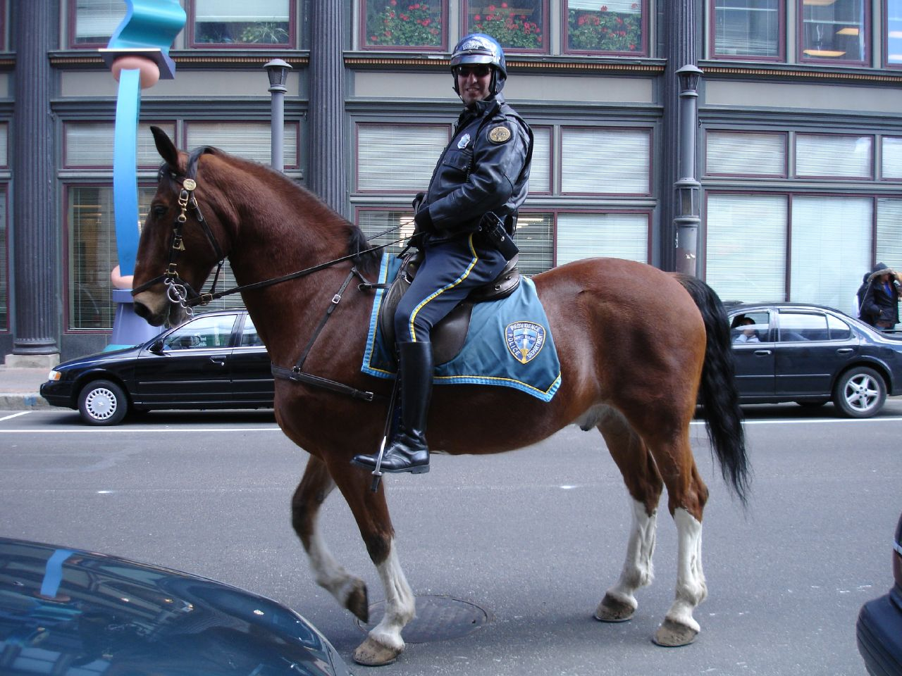 Providence Police Department, Mounted Command